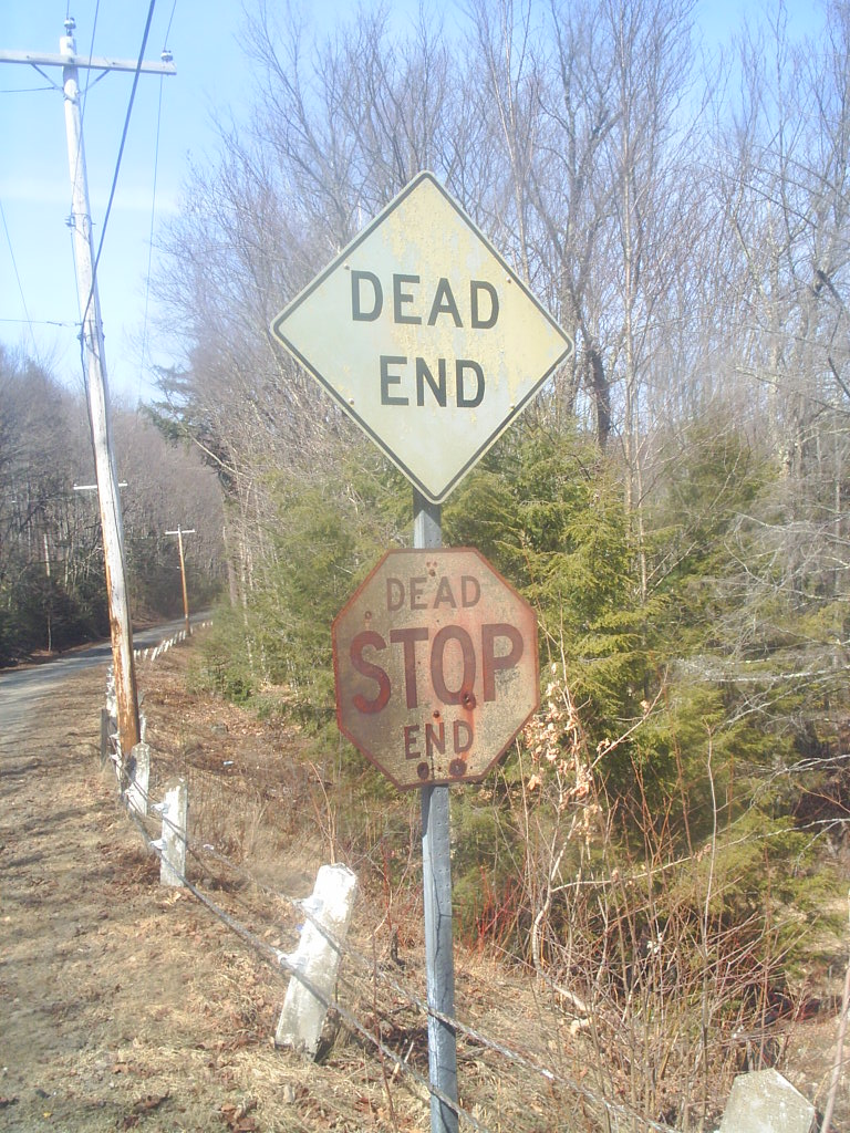 Signage at the western terminus of New York State Route 421 in Piercefield denoting the dead end.